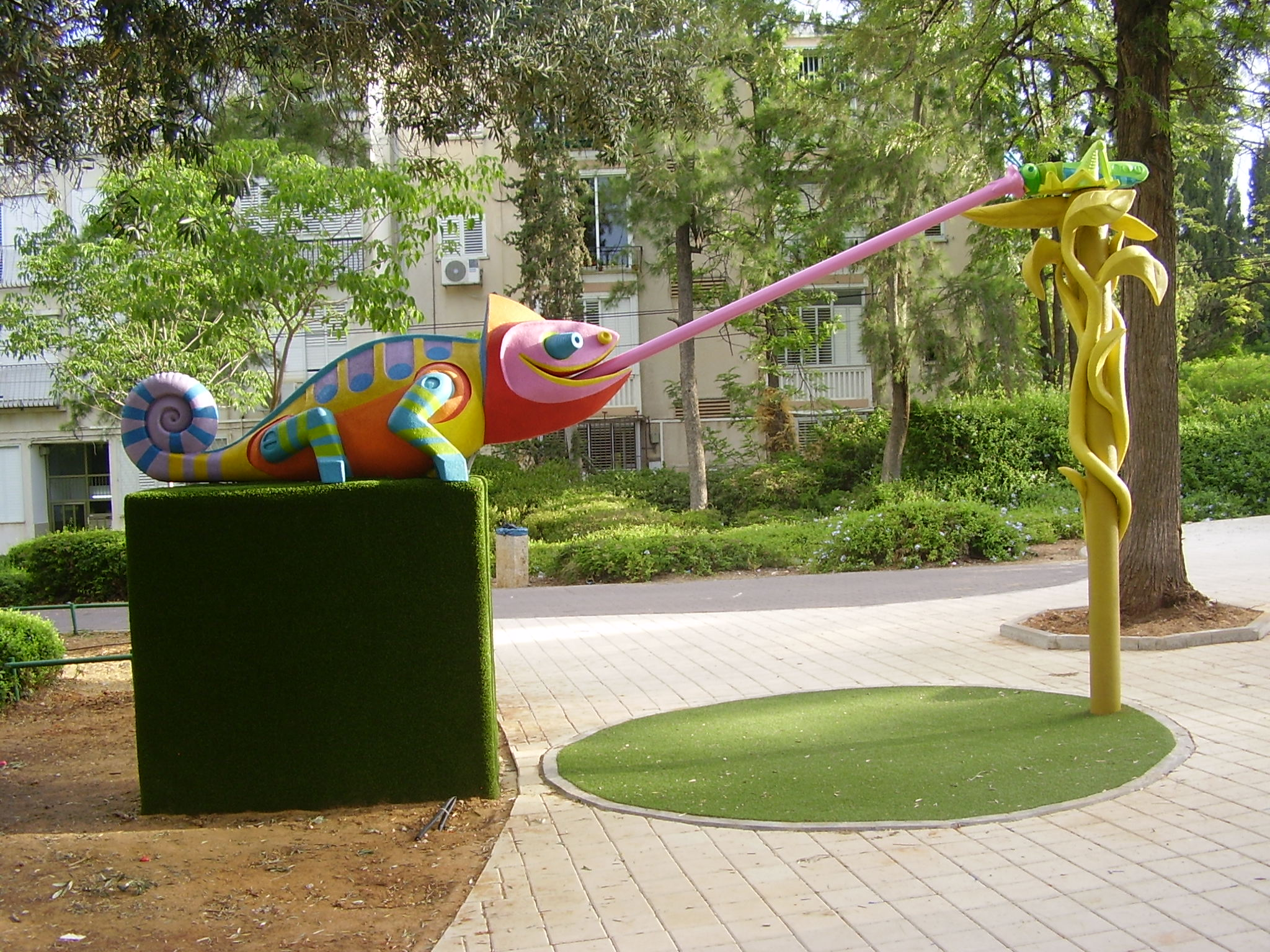 Holon chameleon story Garden